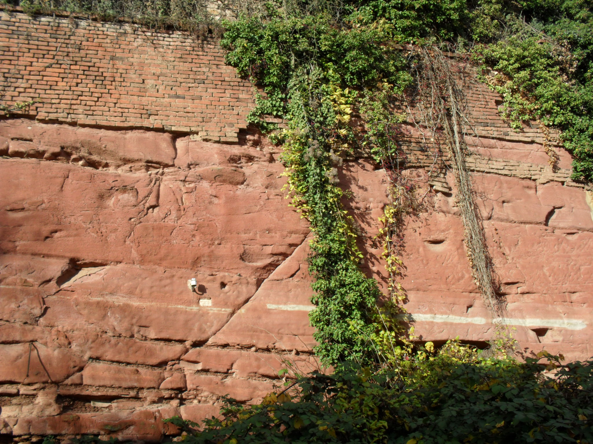 Partly cross-bedded red permian sandstones. Kreuznach Beds, Bad Kreuznach